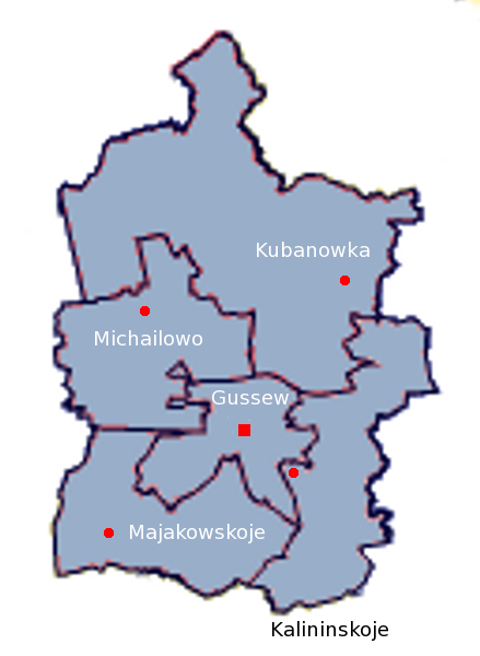 The administrational division of the Gusevsky District in German transcription